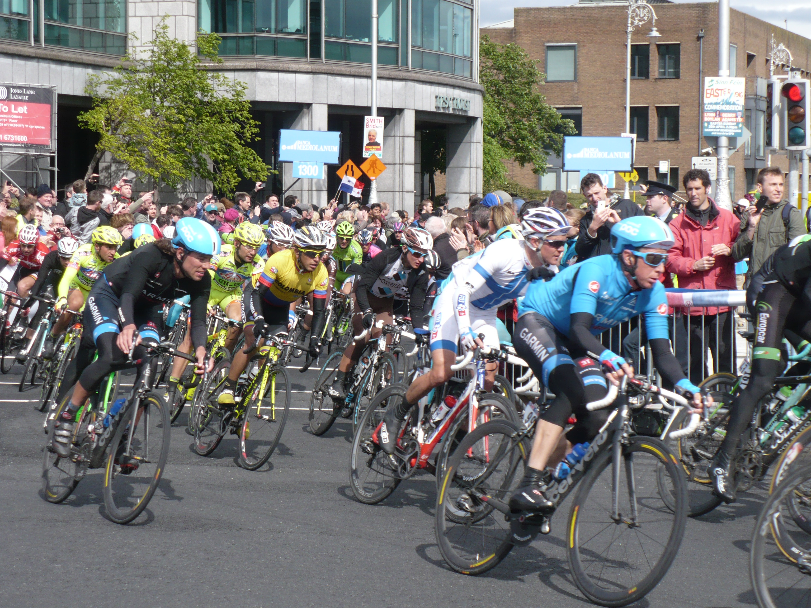 Pack entering Dublin's Memorial Bridge during the third stage of the Giro d'Italia; May 11th, 2014. Known riders: Fabian Wegmann (99, Garmin Sharp)